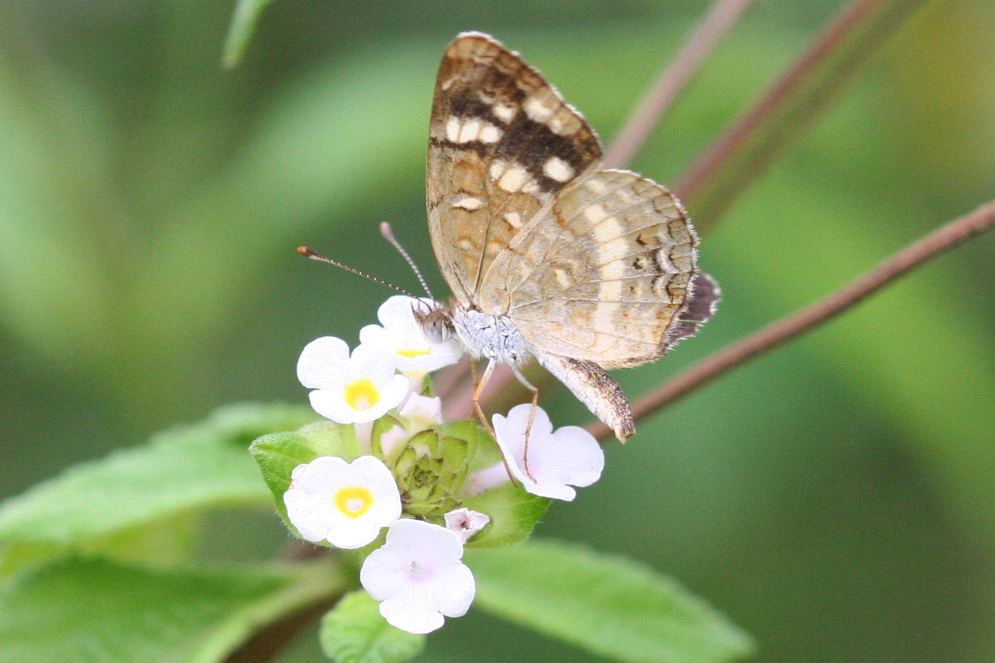 Anthanassa frisia tulcis. Also known as Pale-banded crescent (Phyciodes tulcis).